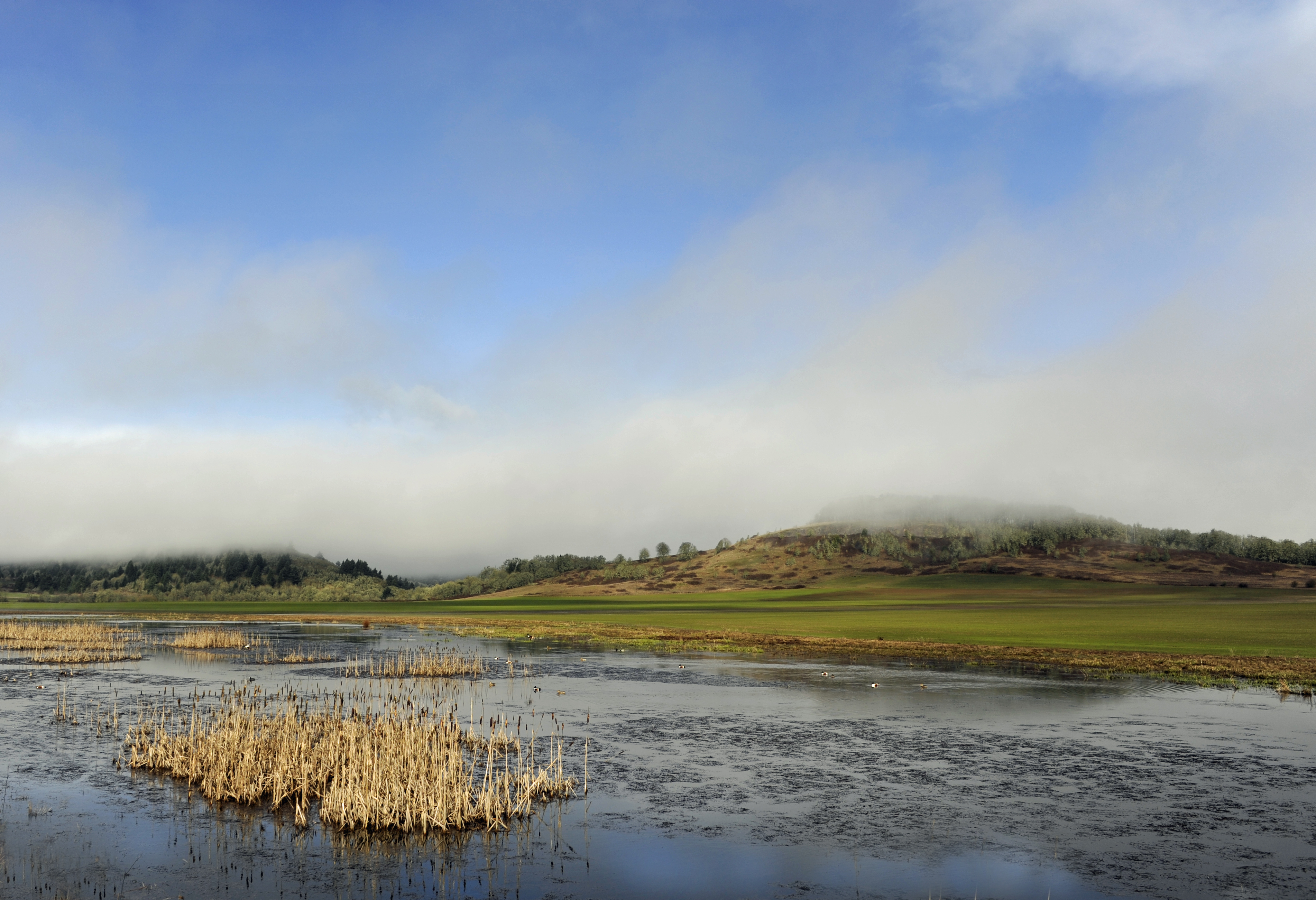 William L. Finley National Wildlife Refuge You are free to use this image with the following photo credit: George Gentry/U.S. Fish and Wildlife Service